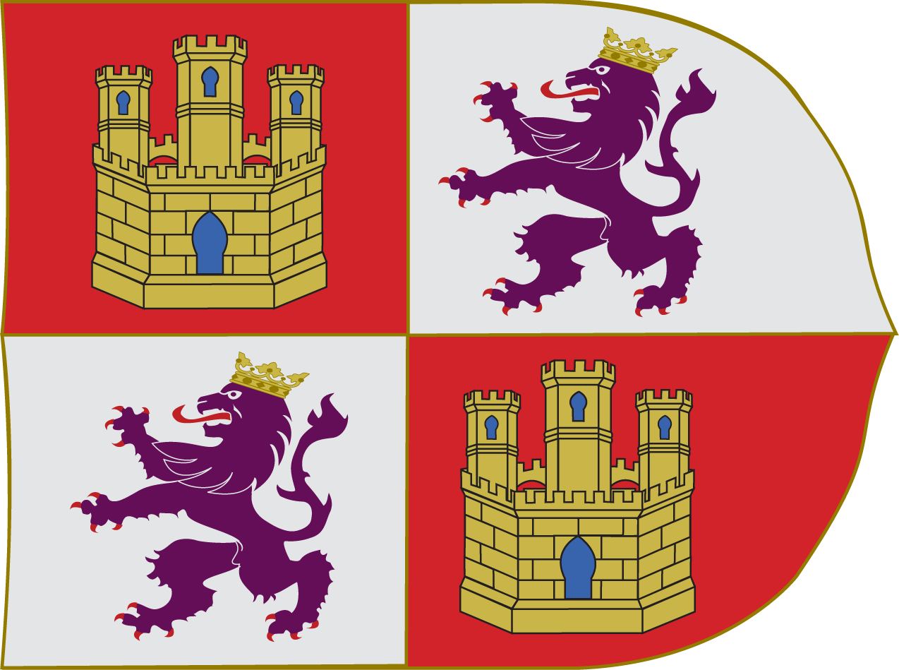 Standard of the Crown of Castile